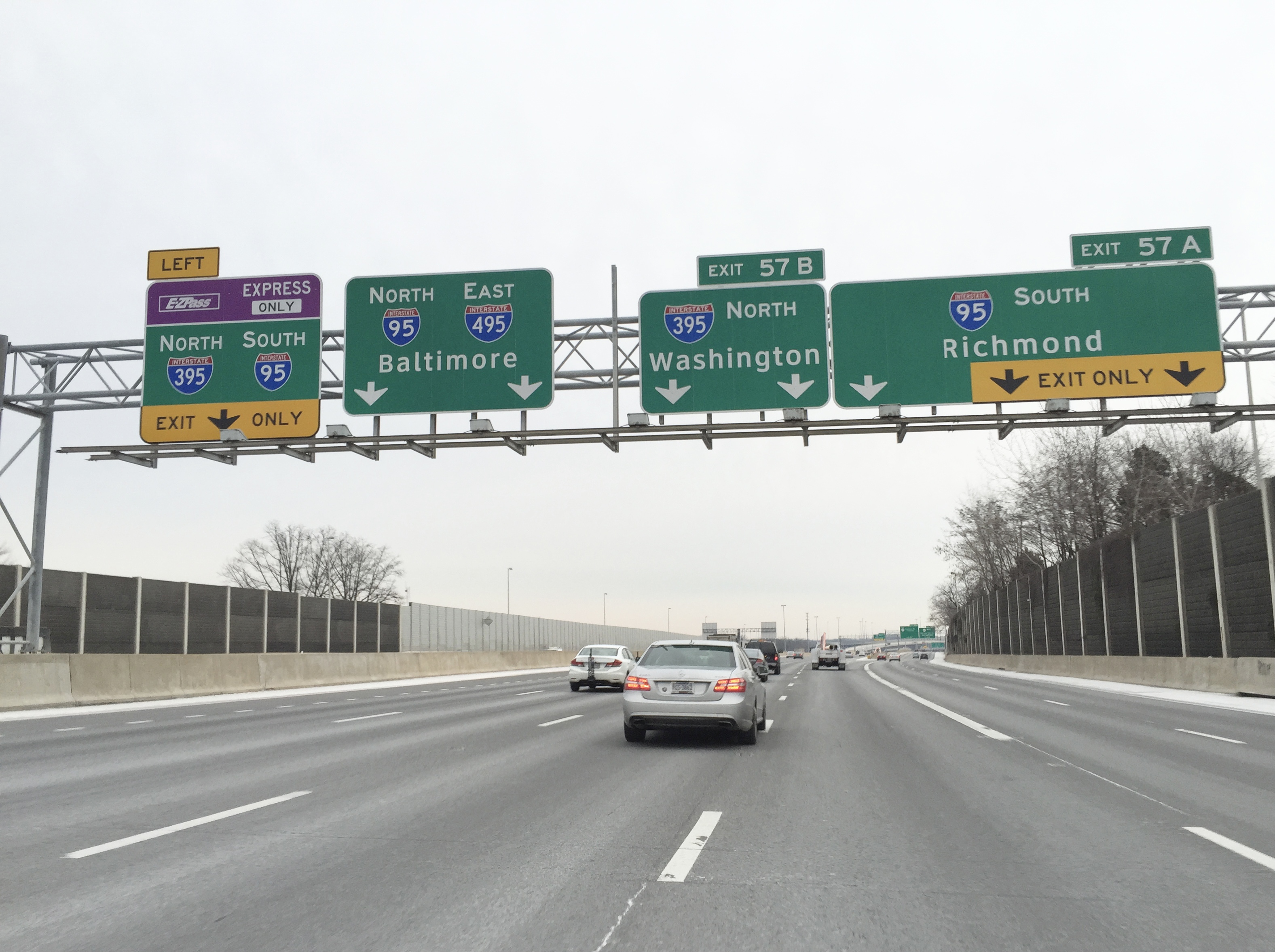 View south along the outer loop of the Capital Beltway (Interstate 495) at Exit 57A (Interstate 95 South, Richmond) along the edge of North Springfield and Springfield in Fairfax County, Virginia